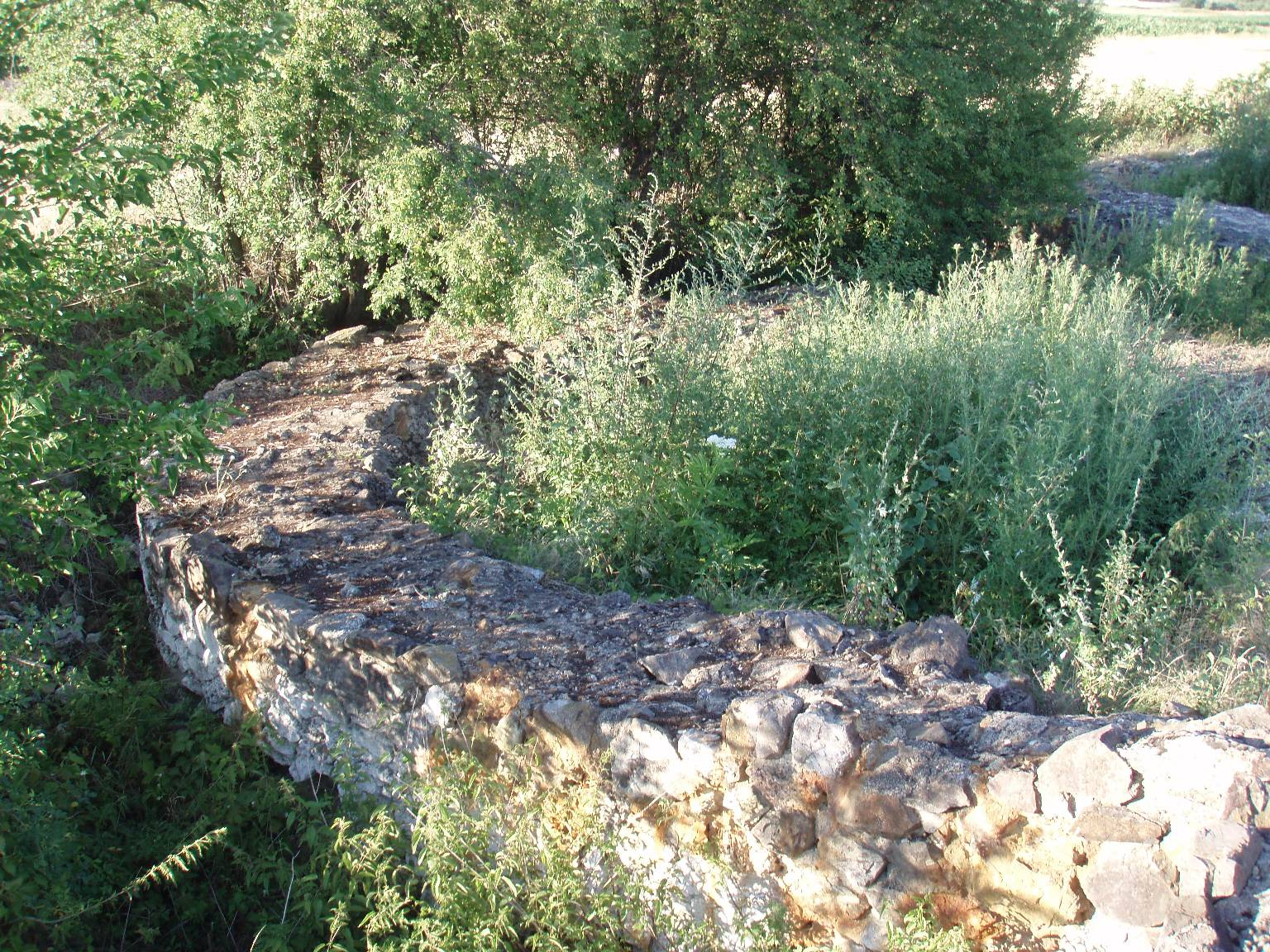 Wall at the excavation site of the ancient Roman town Ulpiana (Serbia)